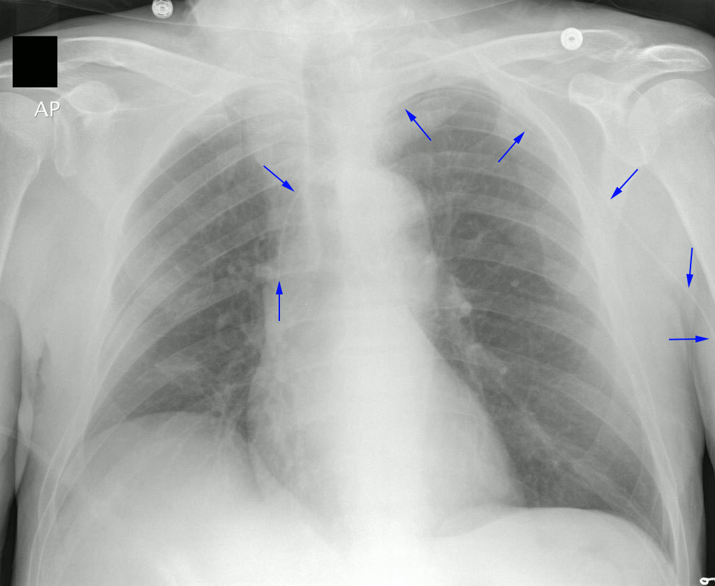 I had a really hard time finding the PICC line in the original version of this file located at: So, I've added a few arrows to help the viewer track it.